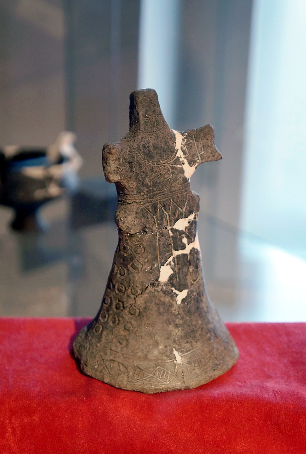 Bronze Age cabinet 04, museum Zrenjanin: Anthropomorphic figurine from Banat, period of the Encrusted Pottery (Culture of the Encrusted Ceramics of the Lower Danube)